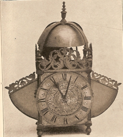 "Winged" lantern clock, a very early type of pendulum clock, made by British clockmaker Edward East in the late 17th century just after the invention of the pendulum clock in 1657. From a 1922 clock book. This is a lantern clock, a style of clock which predated the pendulum and originally used a foliot timekeeper, which has been converted for use with a pendulum. The early verge escapement made the pendulum swing in very wide arcs of 80° or more, so "wings" have been added to the sides to accommodate the pendulum's swing.